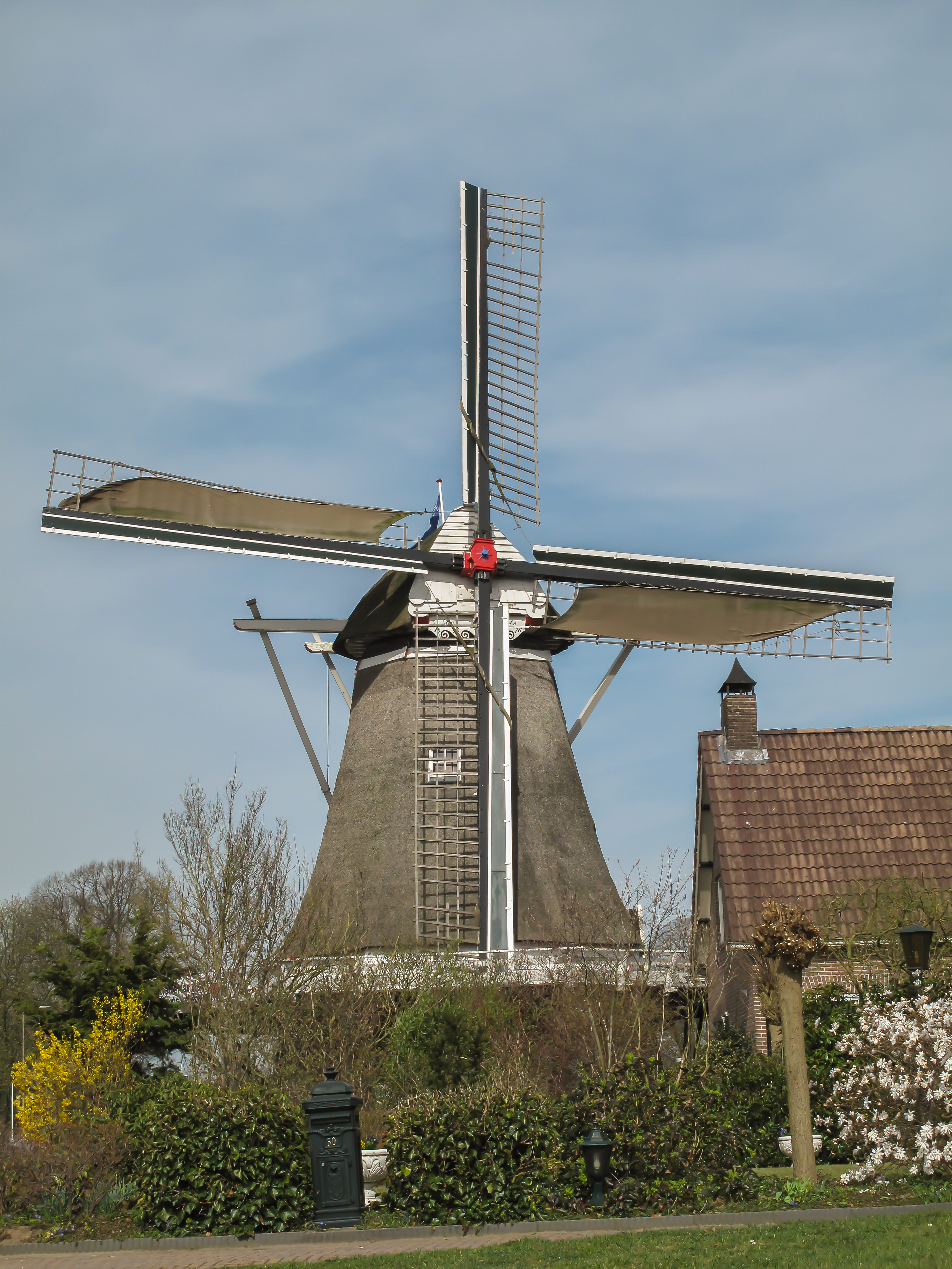 Dalen, windmill